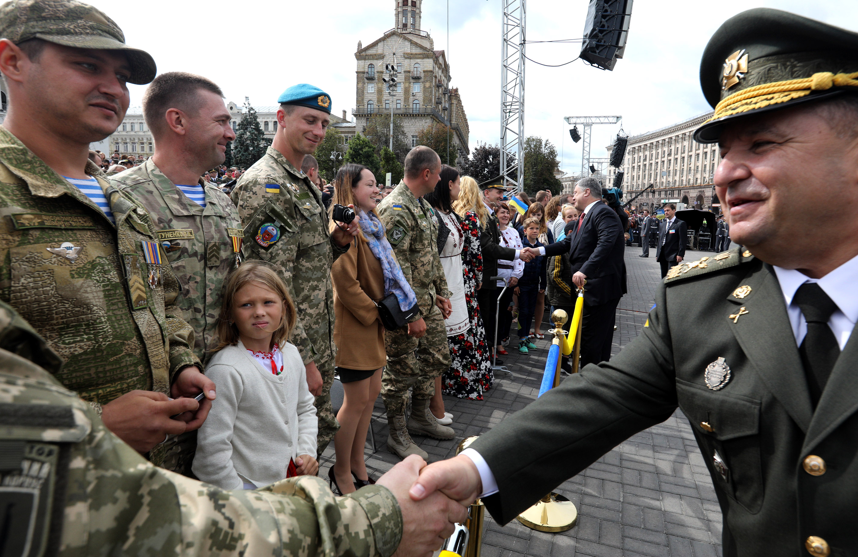 Independence Day military parade in Kyiv. August 24th, 2017